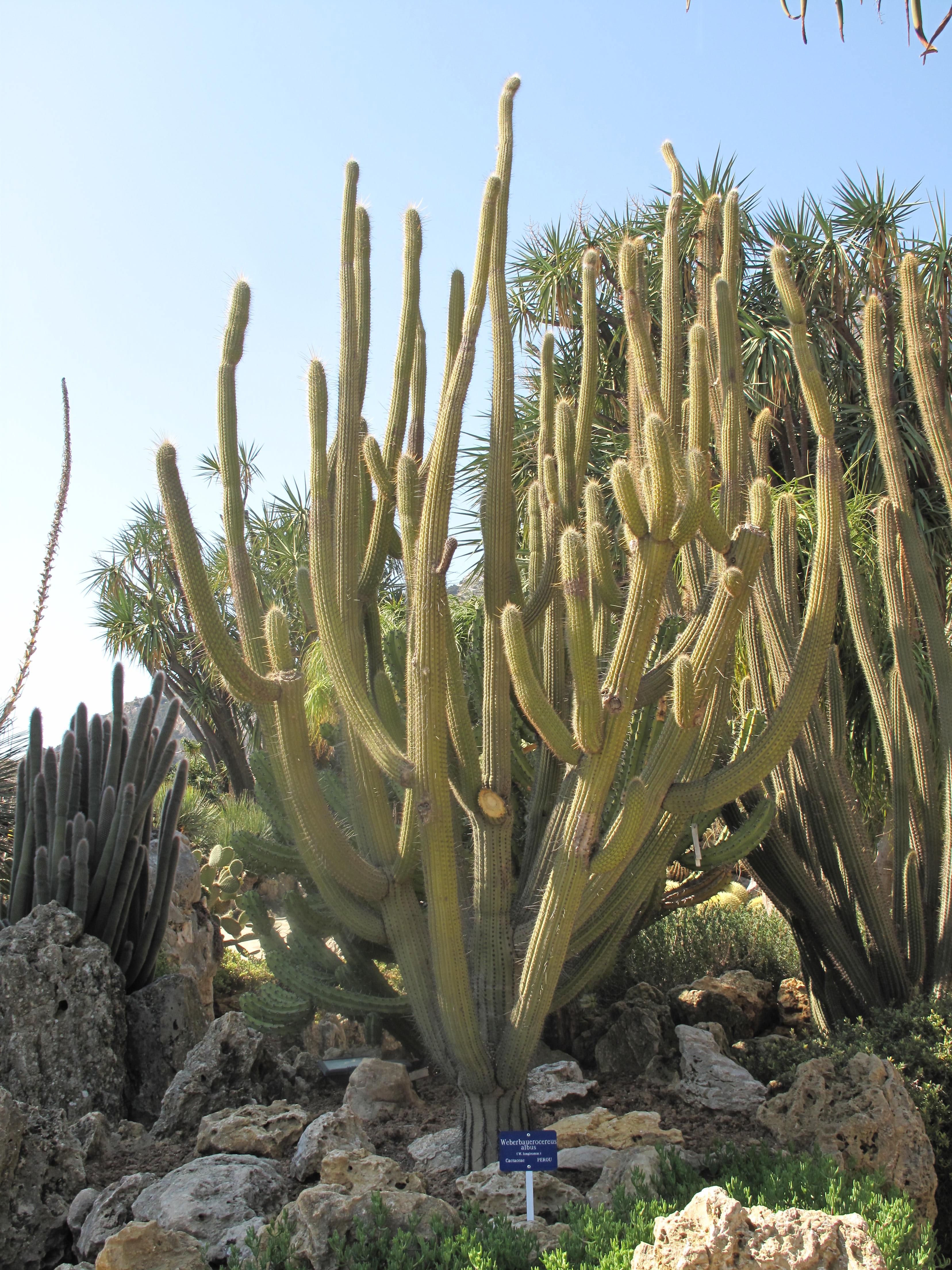 Weberbauerocereus albus in the exotic garden of Monaco. Identified by label.